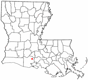 Ask whoever uploaded it